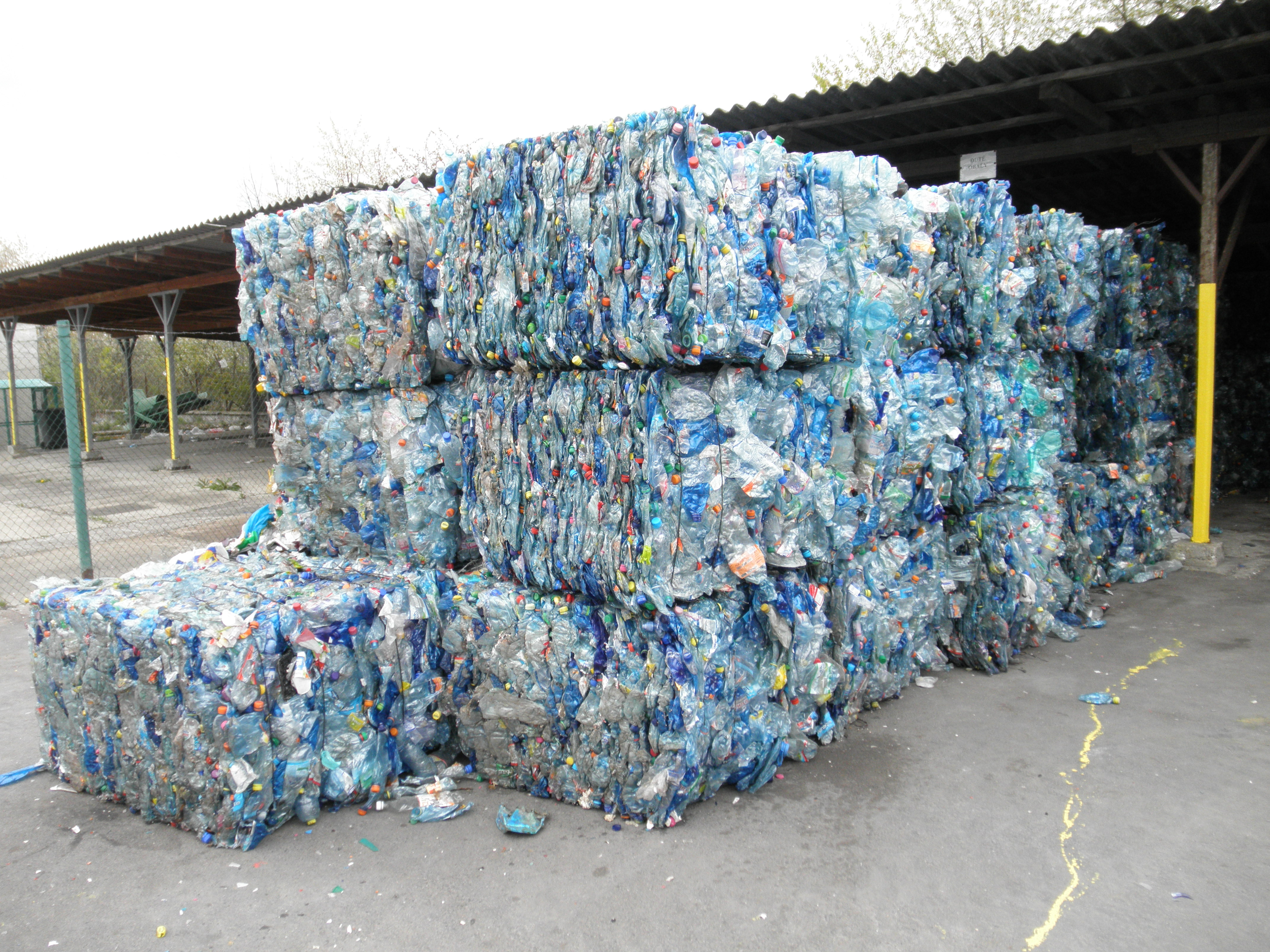 Bales of crushed blue PET bottles. In Olomouc, the Czech Republic.